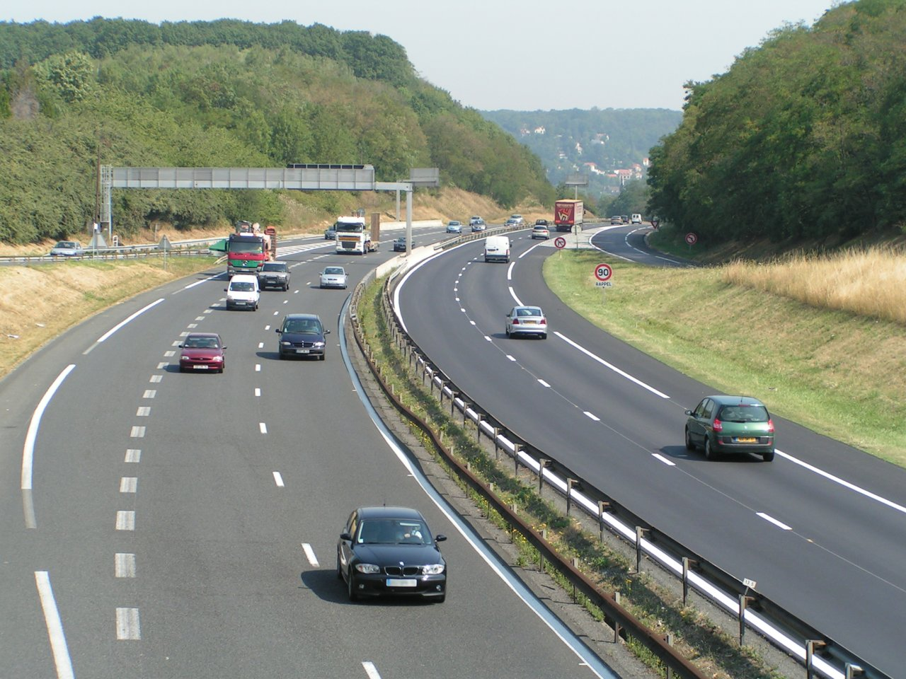 N118 in Mondetour, commune of Orsay, France.